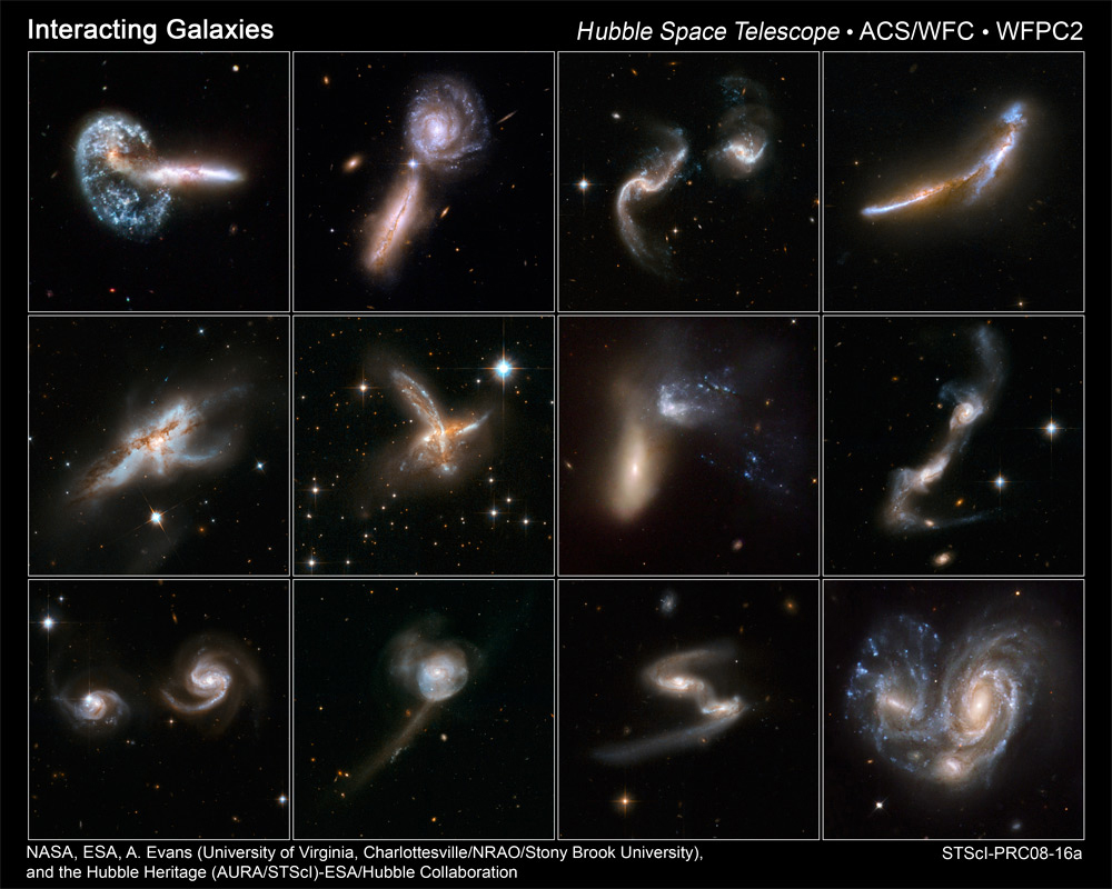 An assortment of 59 interacting galaxies, published by NASA and ESA on the occasion of the 18th birthday of Hubble Space Telescope